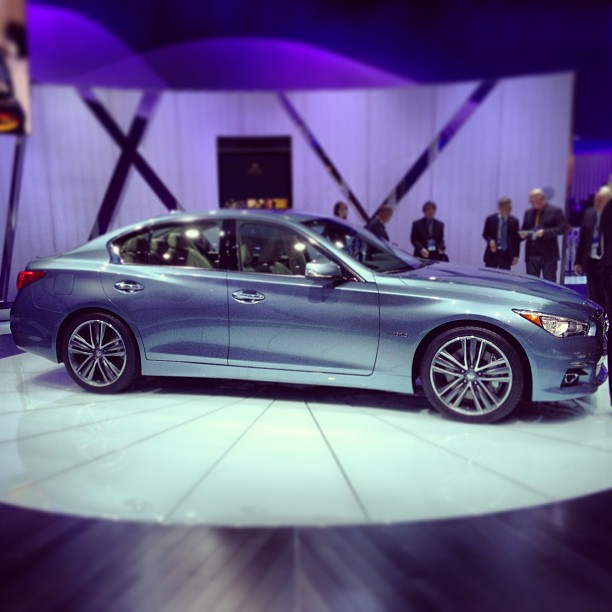 Infiniti Q50 at the 2013 North American International Auto Show in Detroit, Michigan.